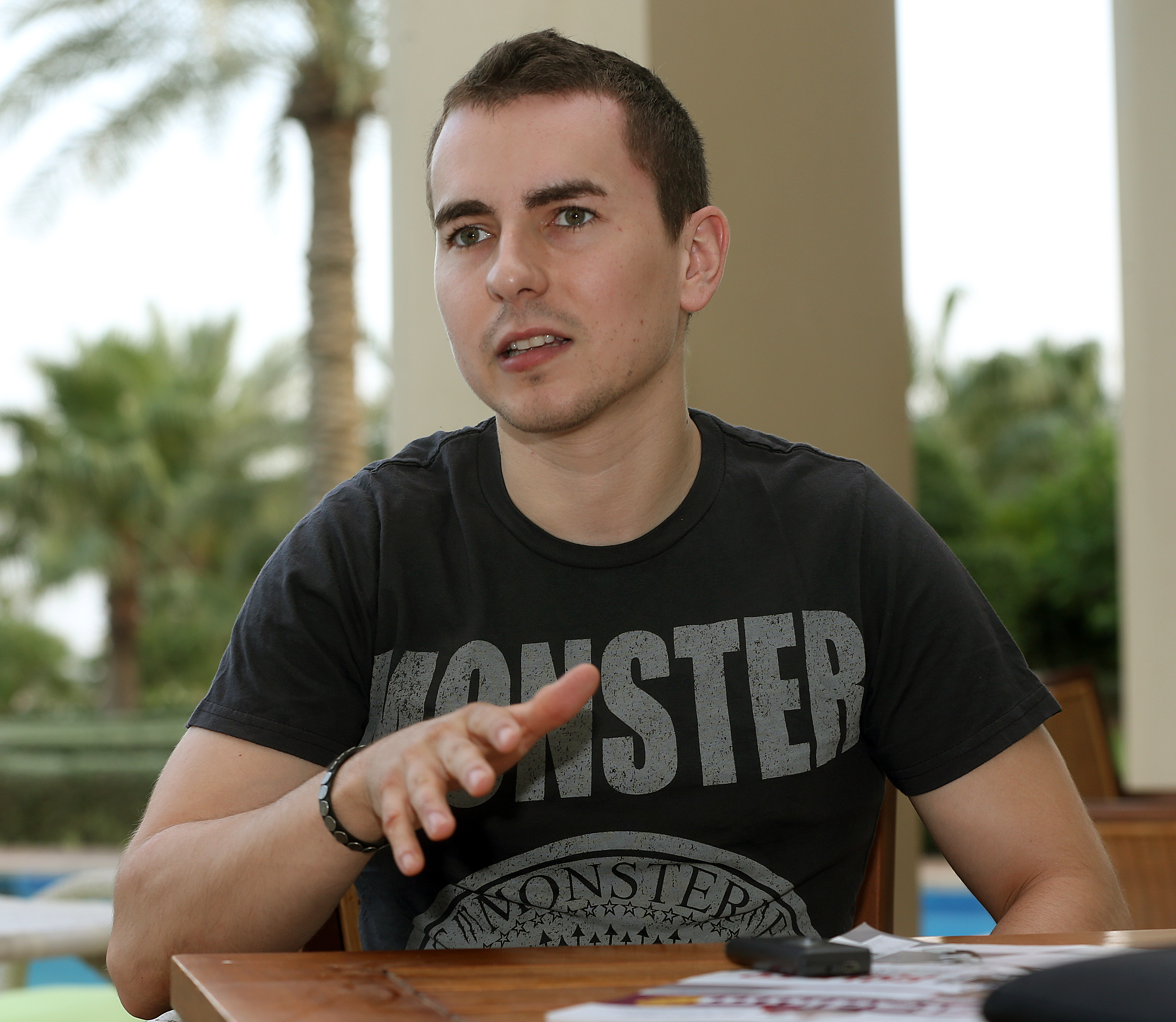 Spanish MotoGP rider Jorge Lorenzo during a meeting in Doha. Picture by Mohan